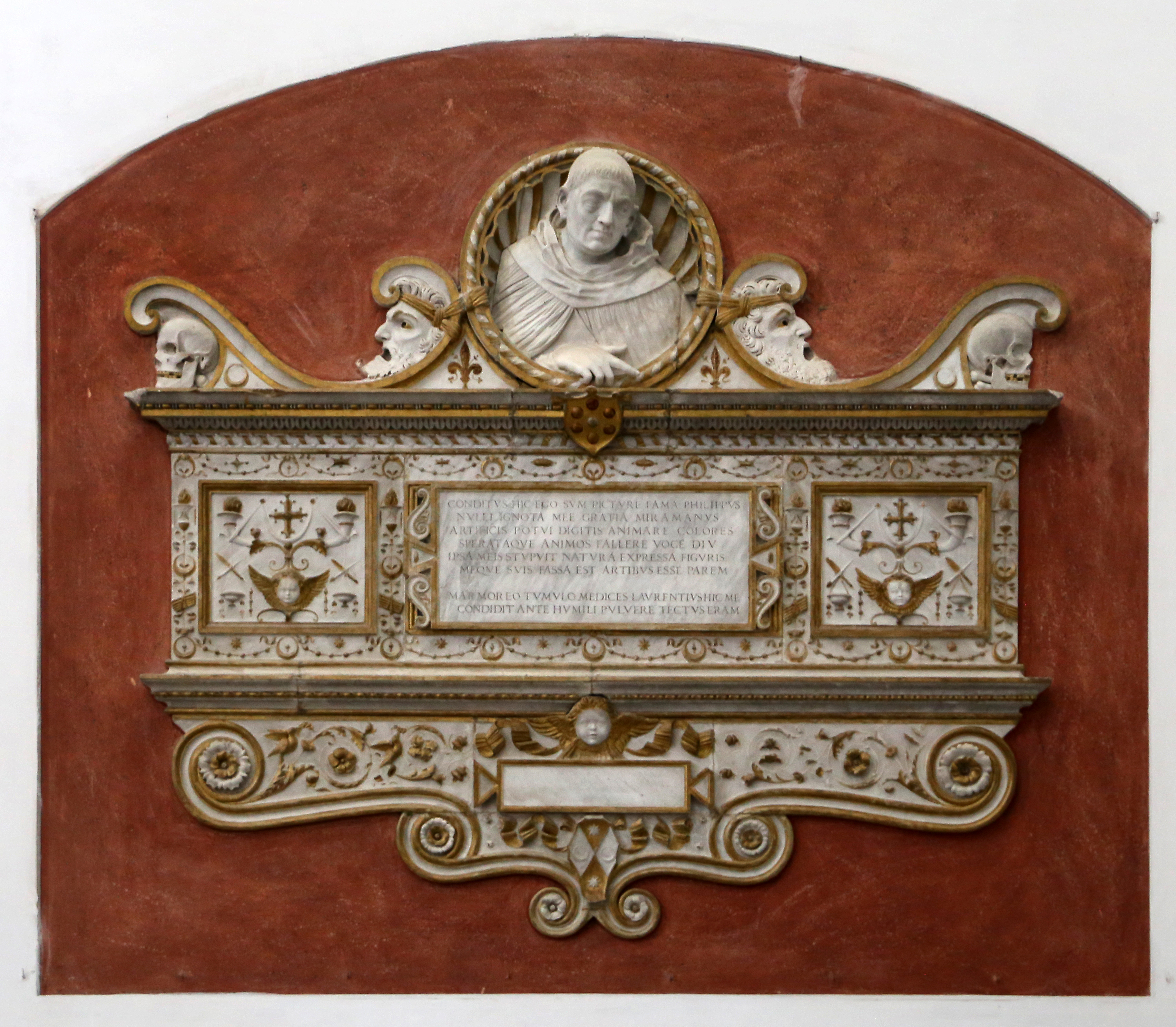 Filippo Lippi tomb